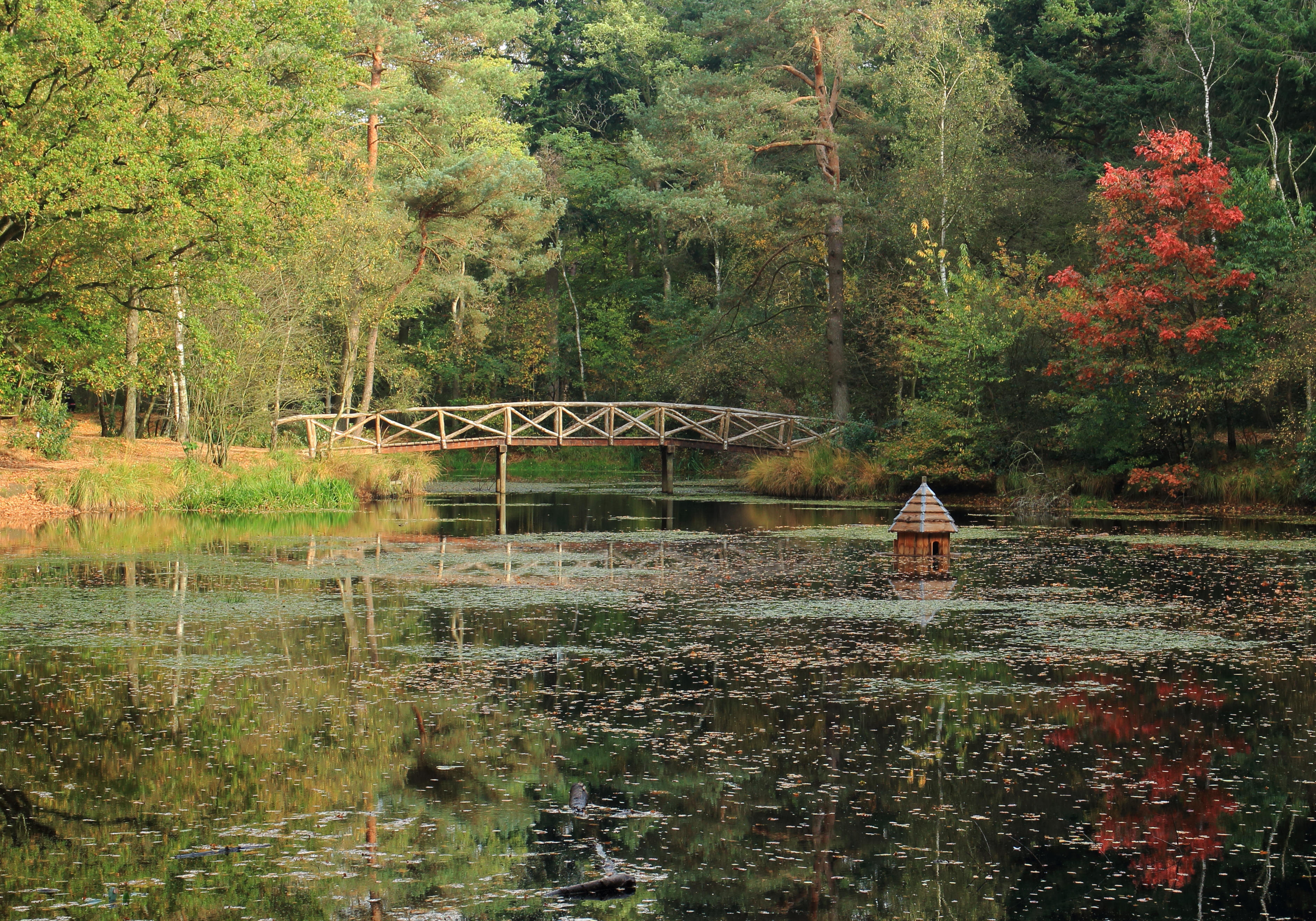 Elfbergen Gaasterland. Bridge over the pond.